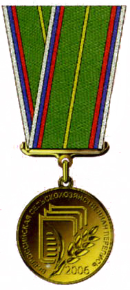 Medal «For merits in carrying out of the All-Russia agricultural census of 2006»